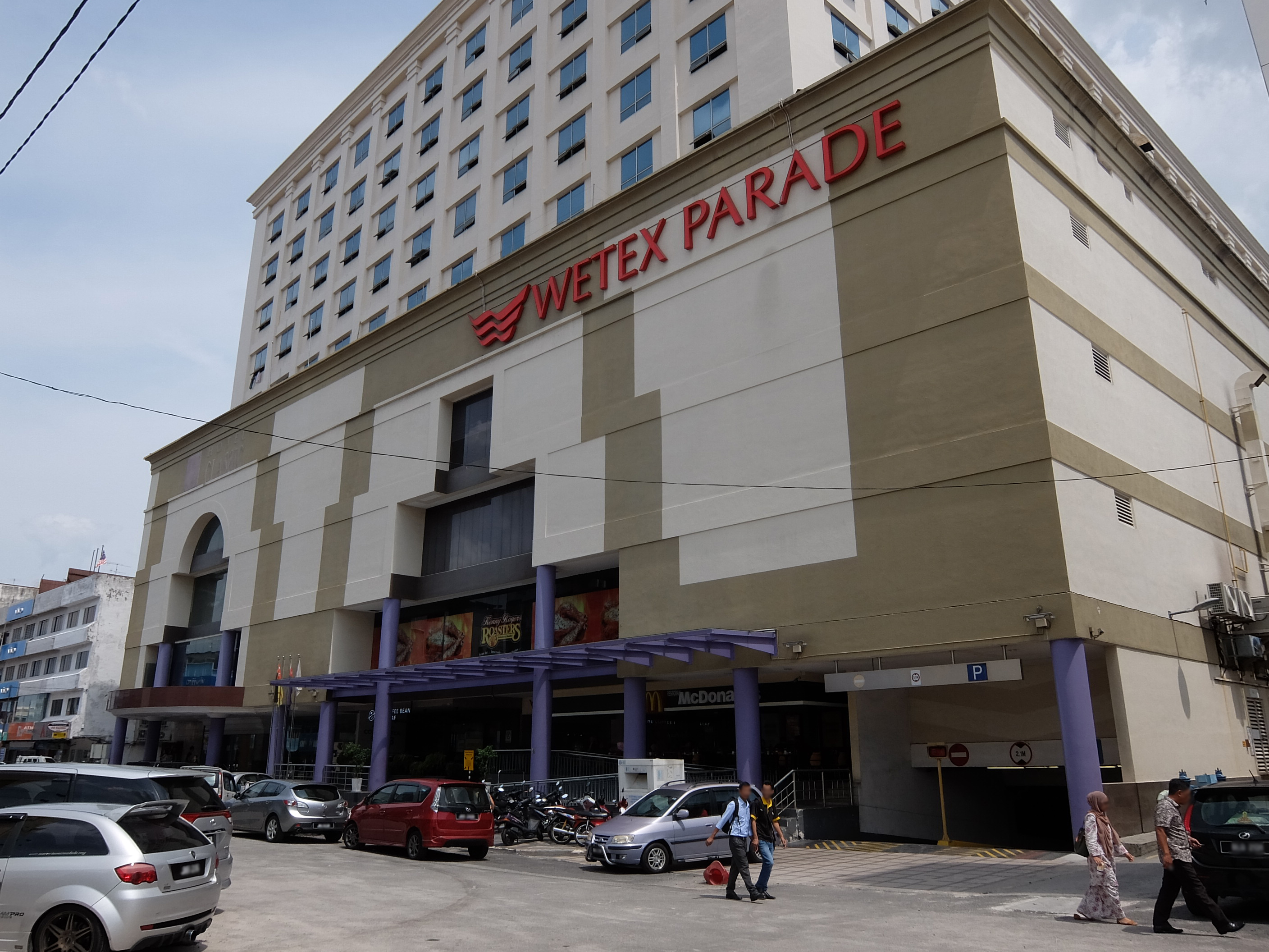 Wetex Parade, Muar, Johor, Malaysia